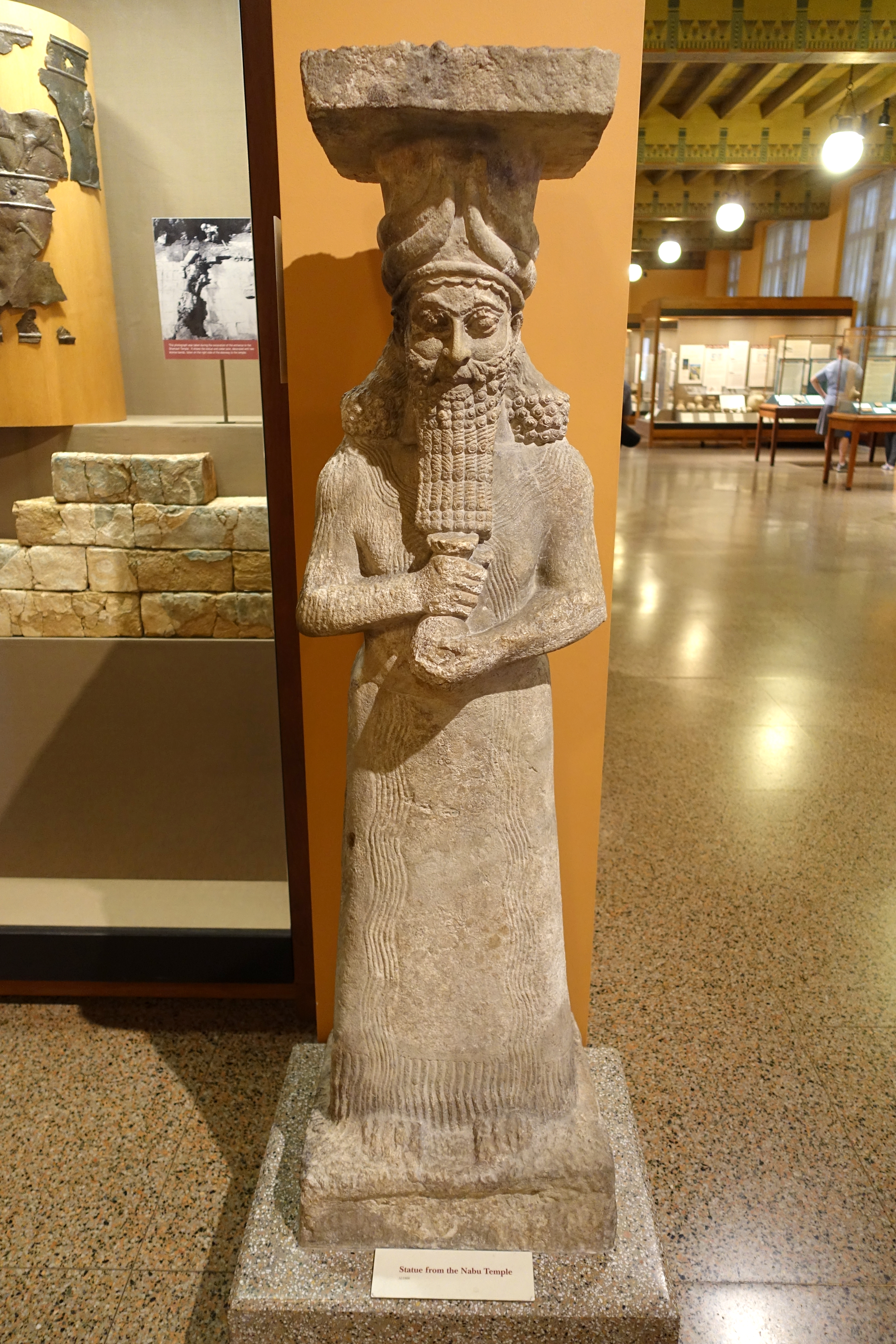 Exhibit in the Oriental Institute Museum, University of Chicago, Chicago, Illinois, USA. This work is old enough so that it is in the public domain.